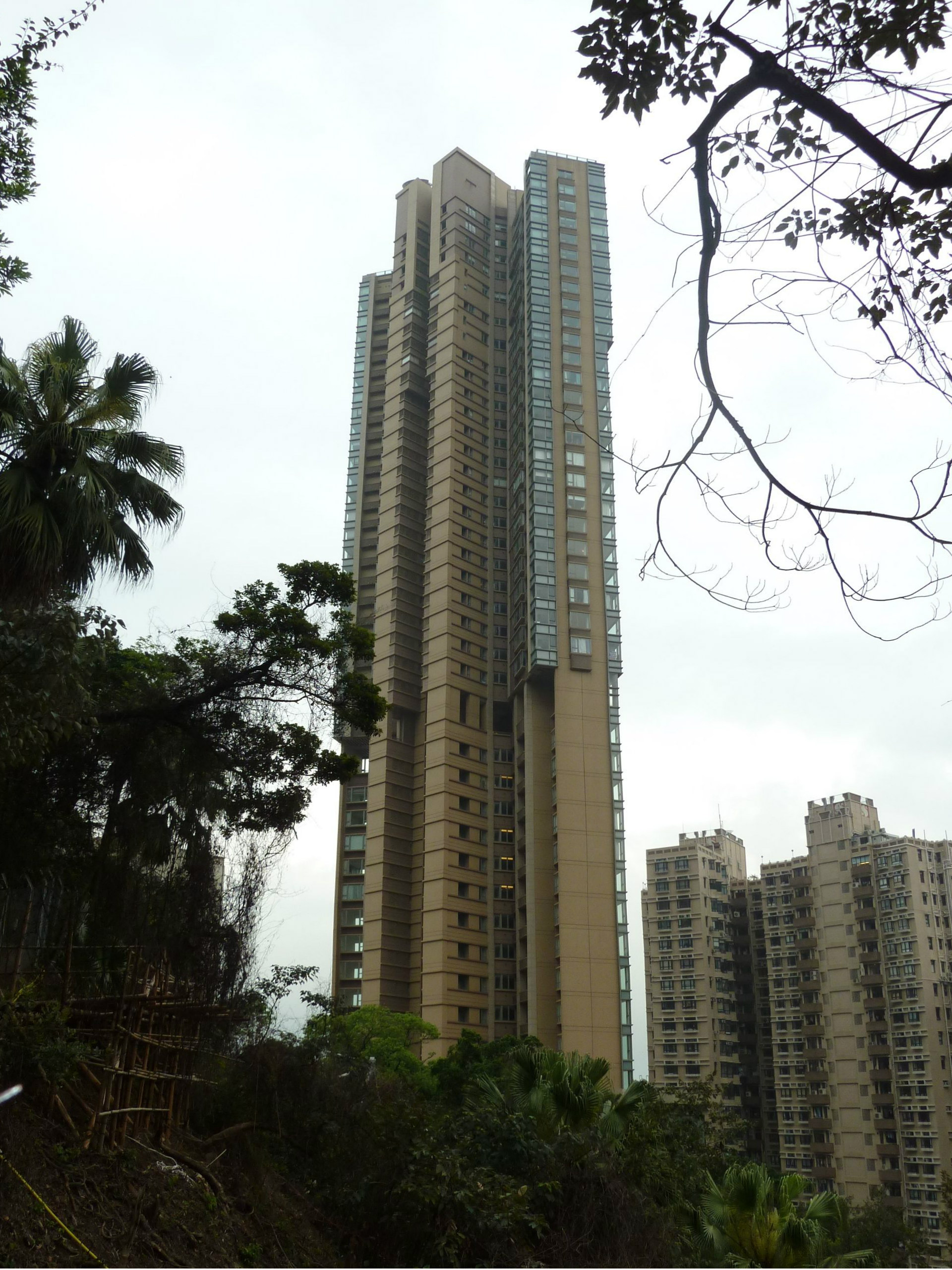 view of 39 Conduit road from footpath on the hill behind